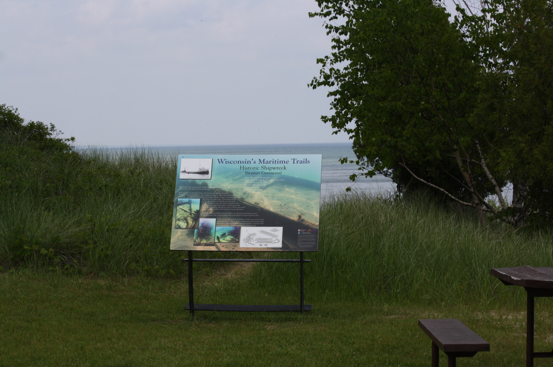 A sign marking the wreck of the ship Continental, looking in the direction of the shipwreck on Lake Michigan. The site is listed on the National Register of Historic Places.